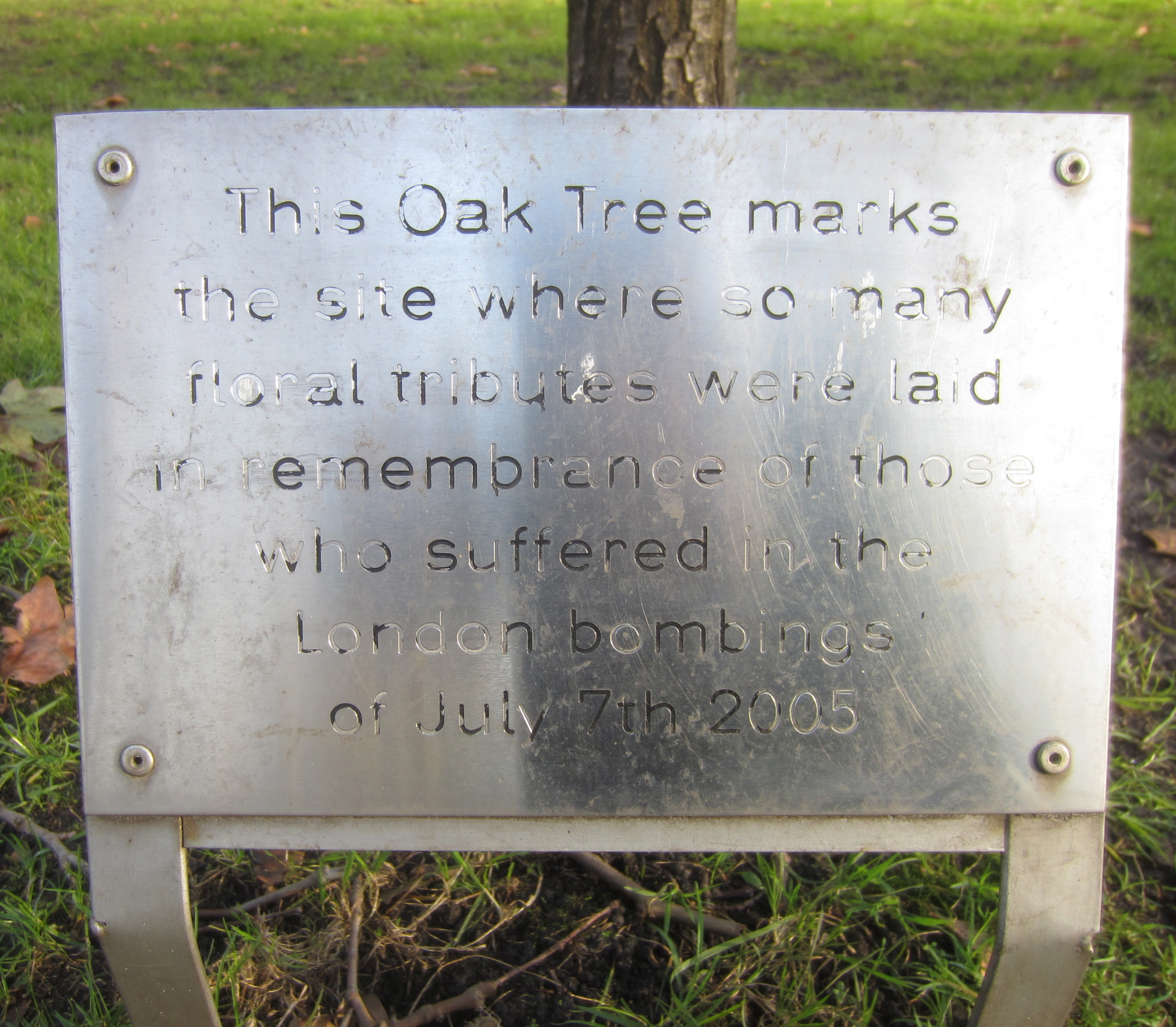 Remembrance plaquette at the oak tree in the gardens of Russell Square.